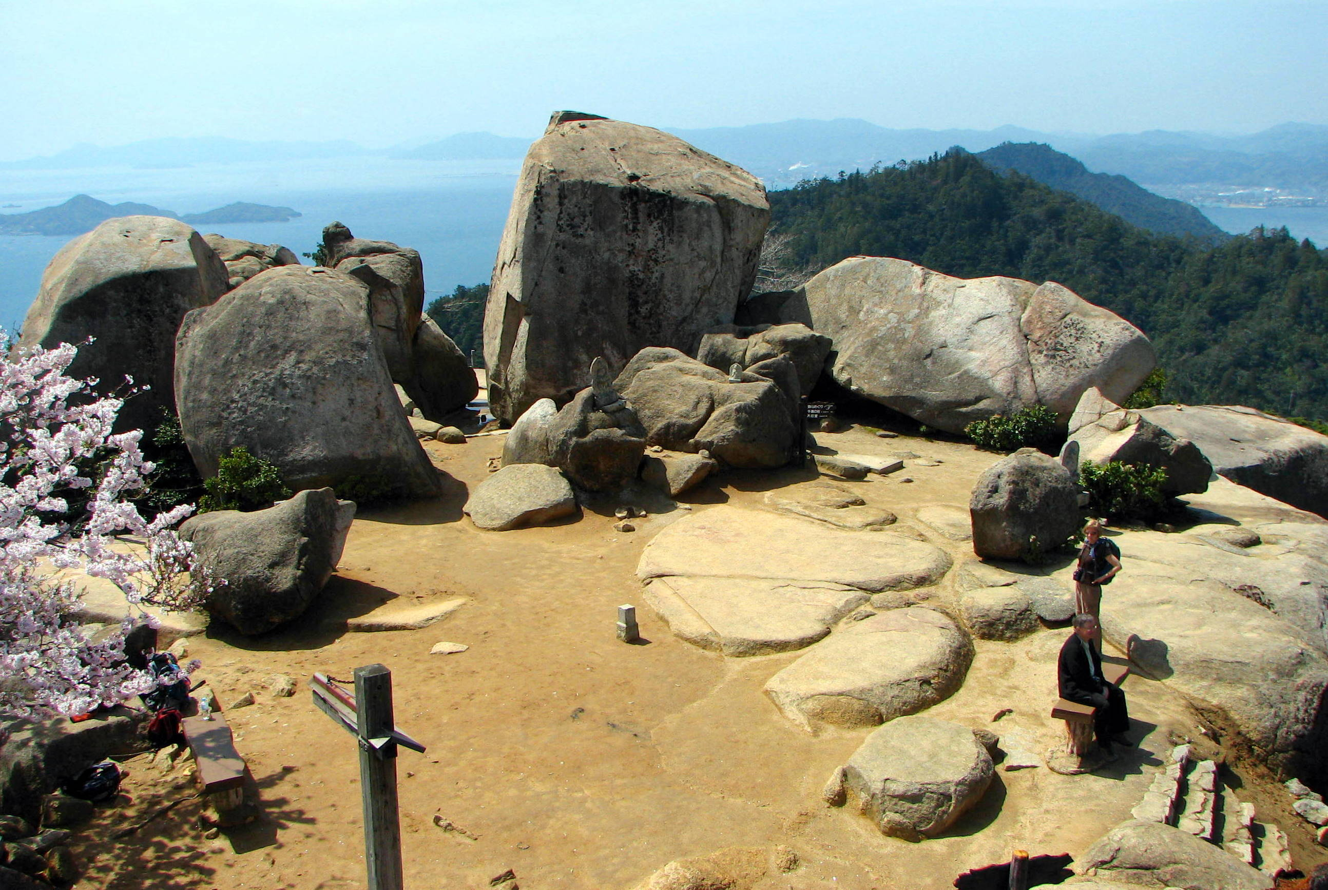 Mount Misen summit, Miyajima Island, Hiroshimia Prefecture, Japan